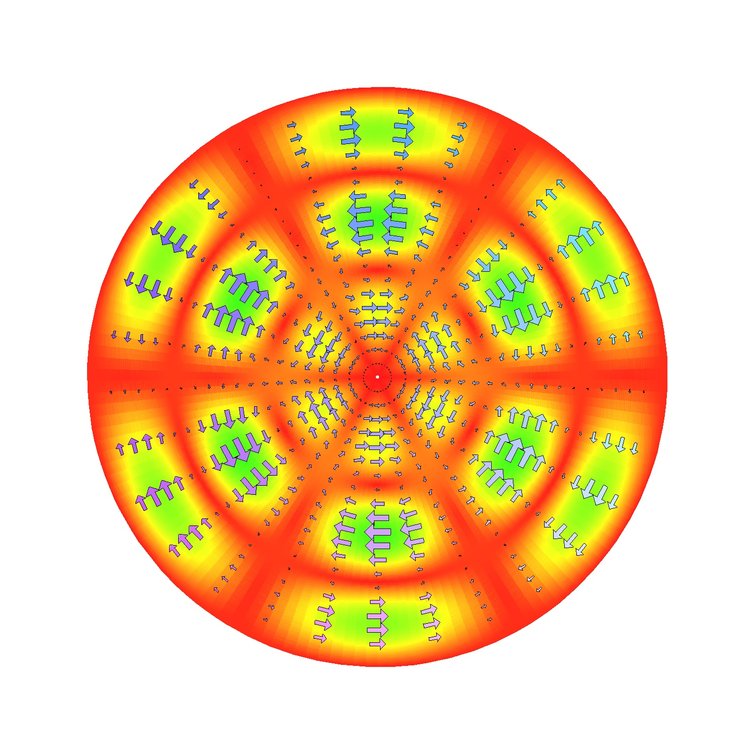 Plot of E and H fields on the TEnl mode defined by n and l.